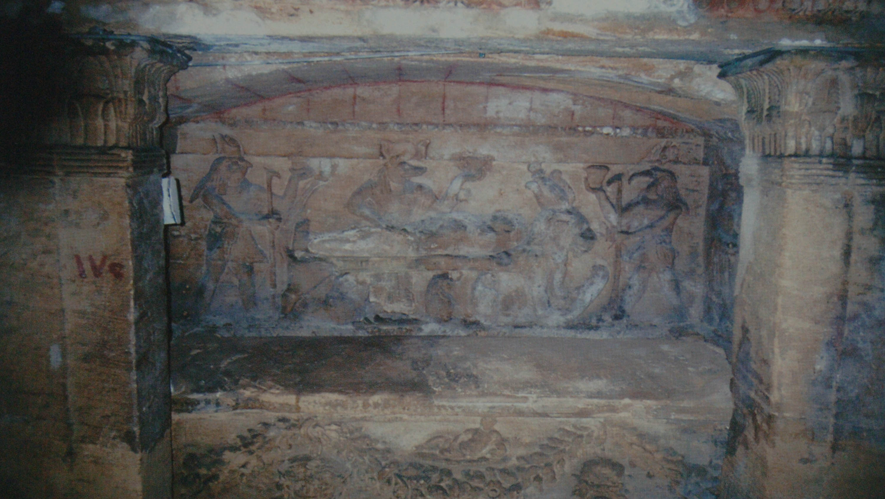 SARCOPHAGUS WITH BAS RELIEF SHOWING EGYPTIAN GODS AND PRIESTS OFFERING SACRIFICES